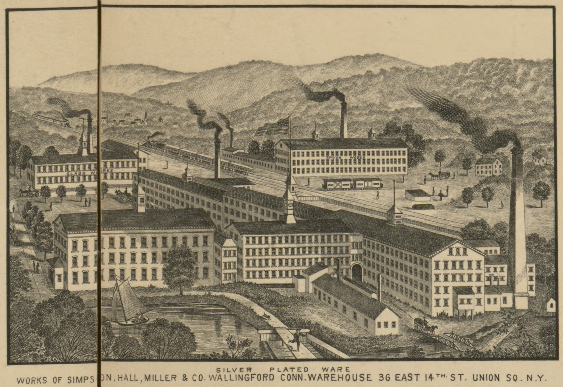 Illustration of works of Simpson, Hall, Miller & Co., Wallingford, Connecticut. Detail from Taylor Map of New York.